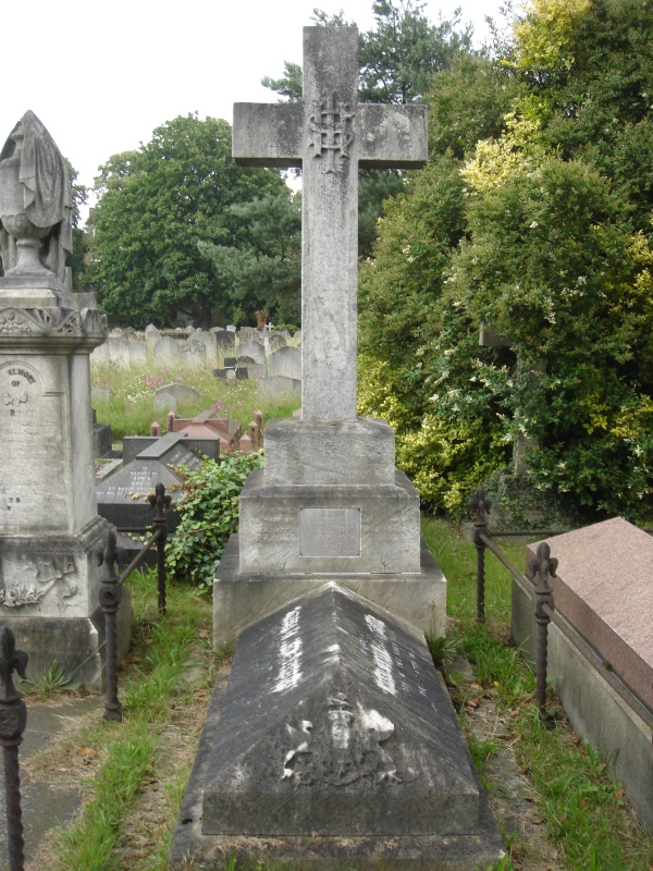 Photograph of Frederic Thesiger funerary monument, Brompton Cemetery, London